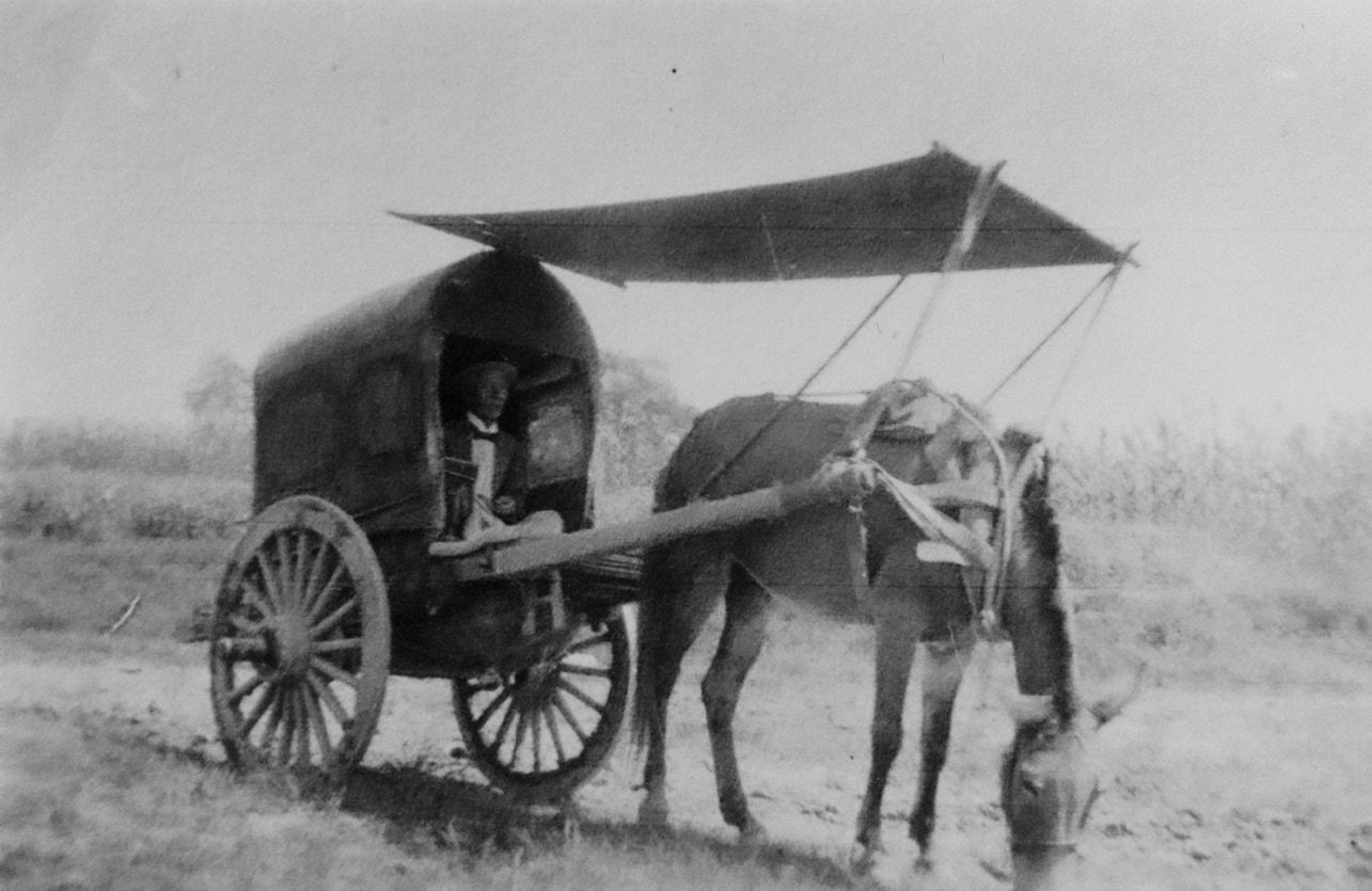 Carrying photographic equipment Yamamoto Seishiro Collection of the Institute of Oriental Culture, The University of Tokyo (donation by Kozaburo Hyuga)